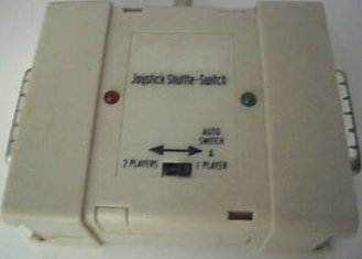 Gameport Splitter.jpg